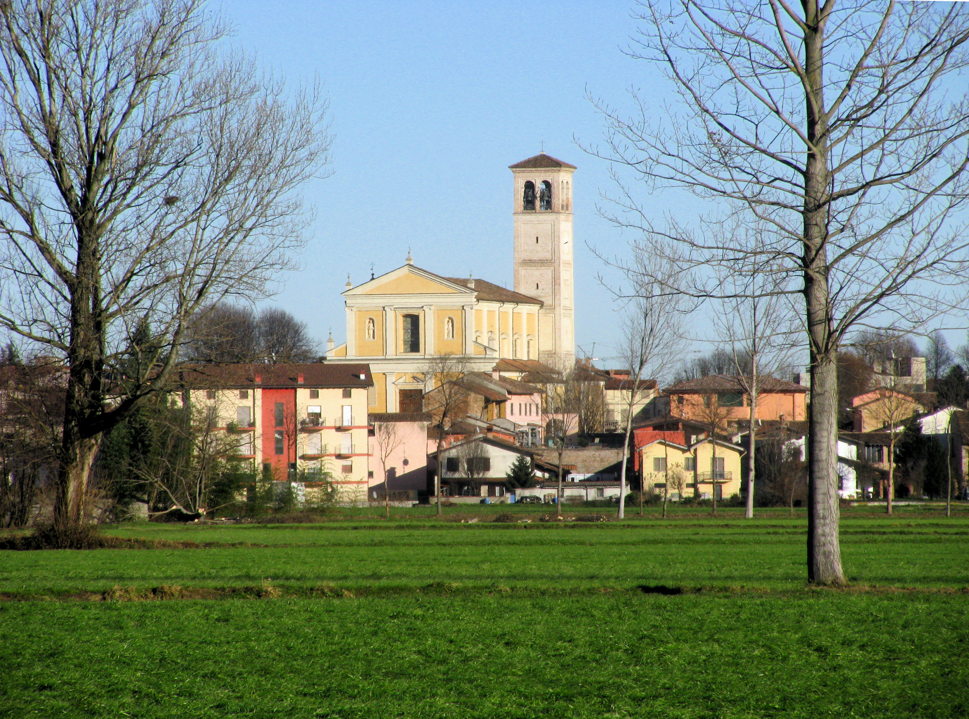 Bagnolo Cremasco - Landscape from the zone "Lame"